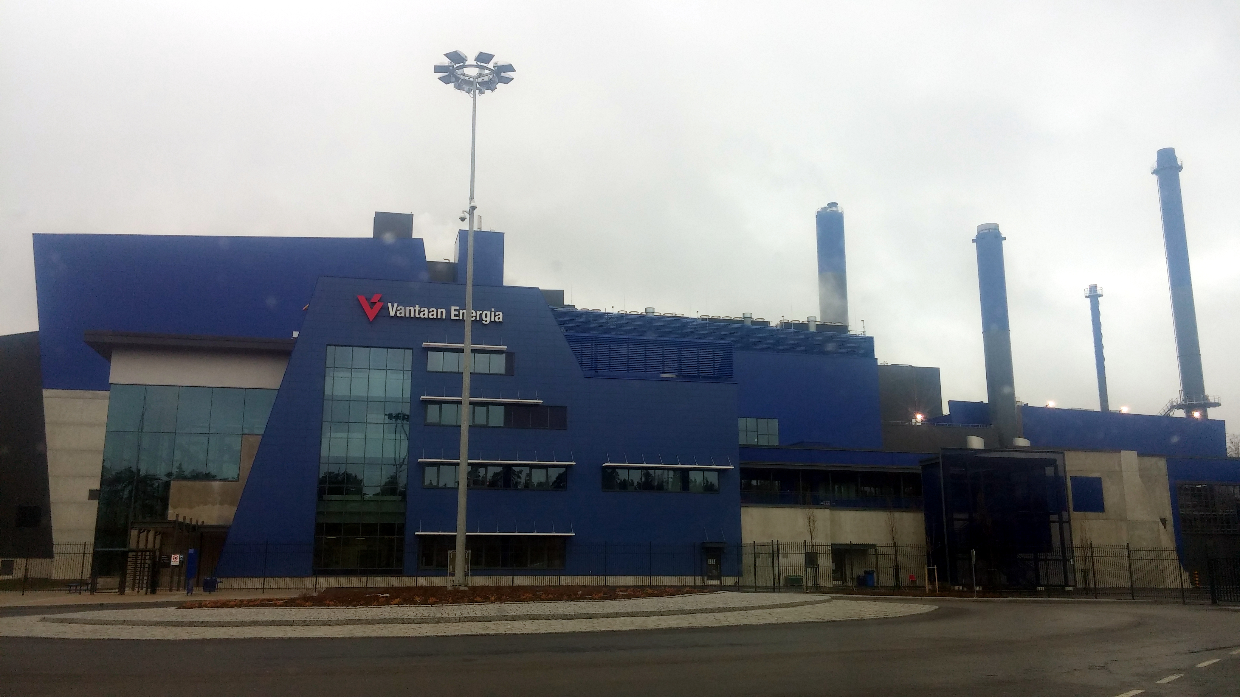 Vantaan jätevoimala is a incinerator in Vantaa, Finland.